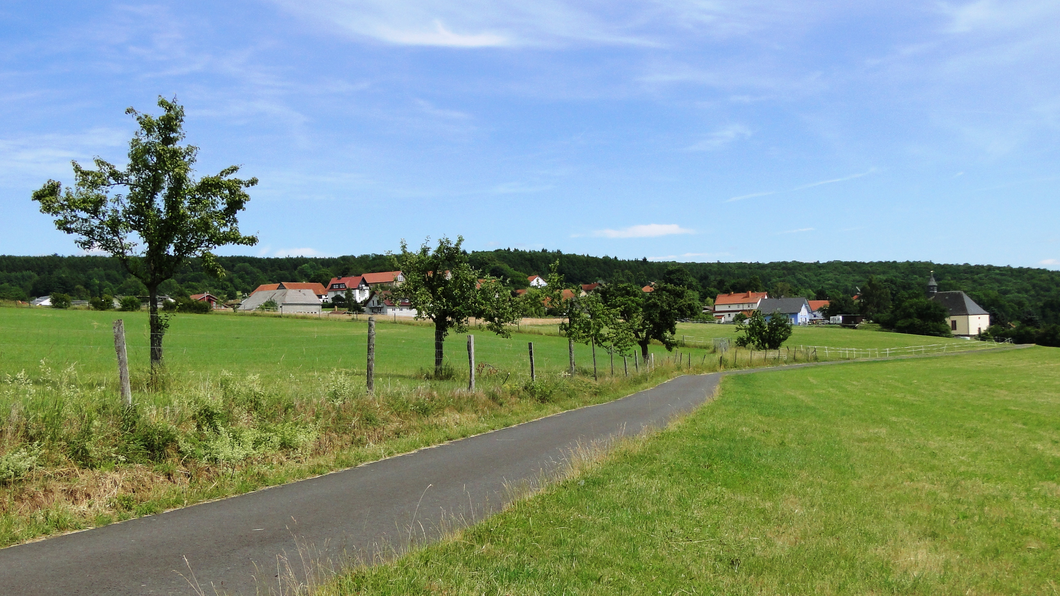 a view of Alsberg, a hill village (Höhendorf) and Ortsteil of Bad Soden-Salmünster (Hesse, Germany) from the northwest; Wallfahrtskirche Heilig Kreuz on the right